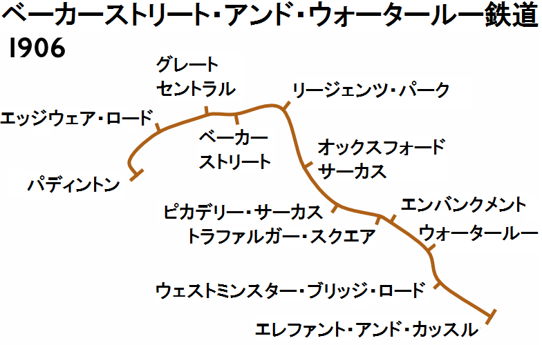 Geographic Map of the Baker Street & Waterloo Railway, 1906.